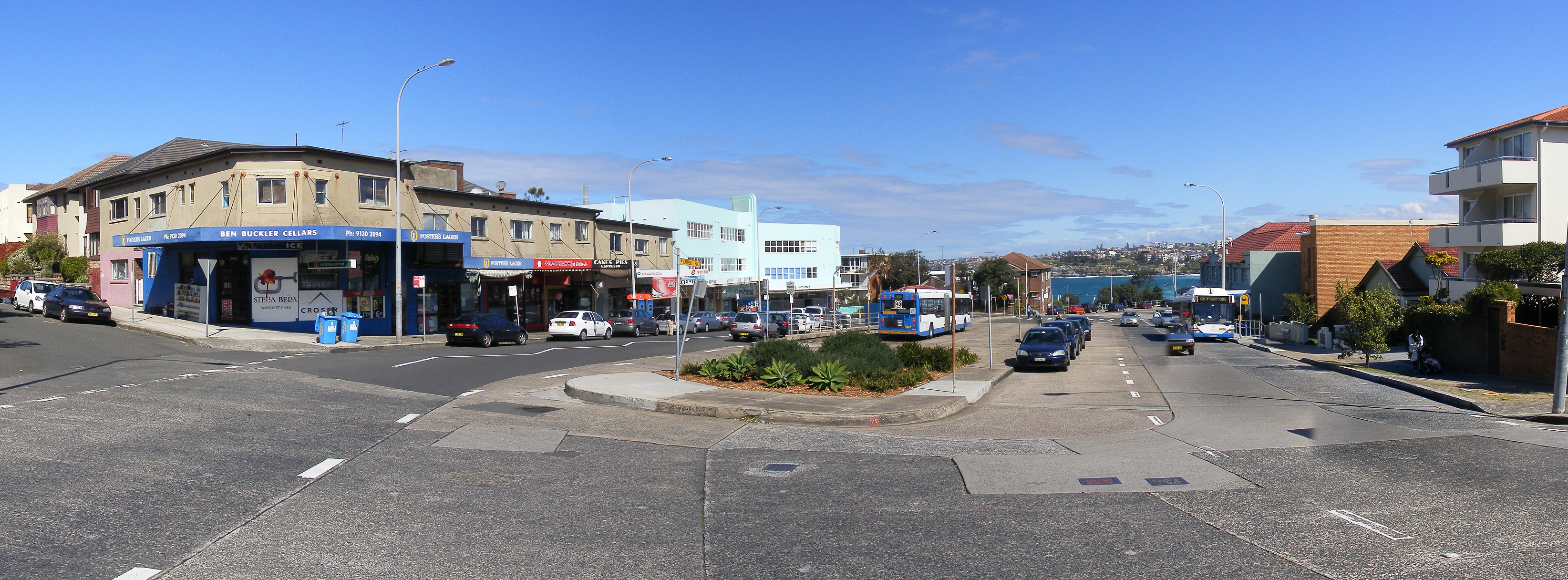 North Bondi, Ben Bucker, New South Wales Australia